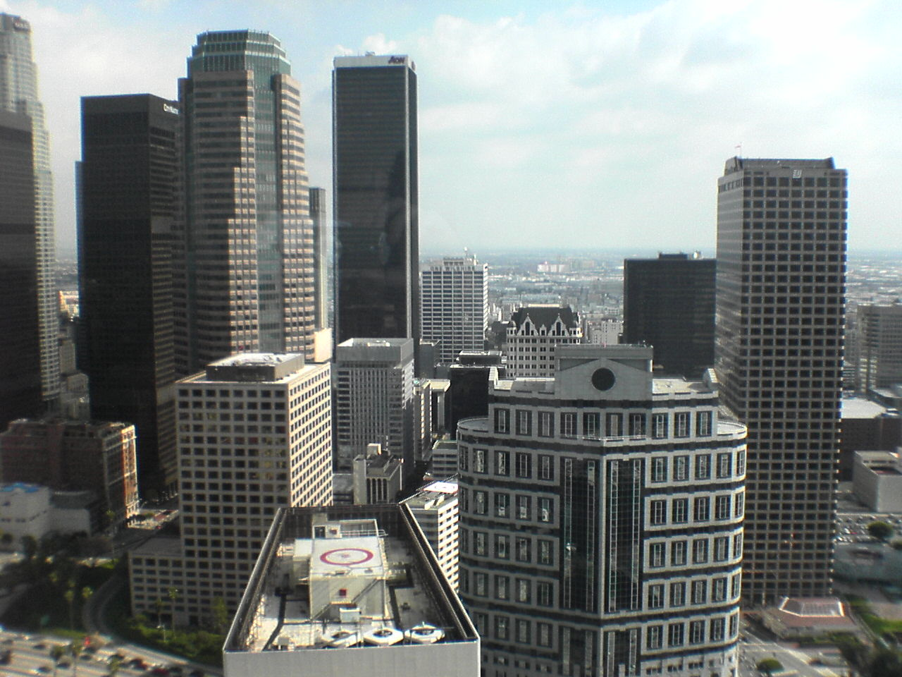 Looking west from floor 32